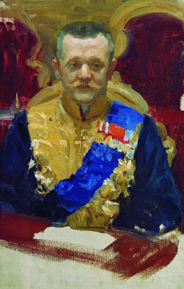 Portrait of Minister of Justice and member of State Council Nikolai Valerianovich Muravyov. Study for the picture Formal Session of the State Council. Oil on canvas. 54 × 35 cm. The State Russian Museum, St. Petersburg.